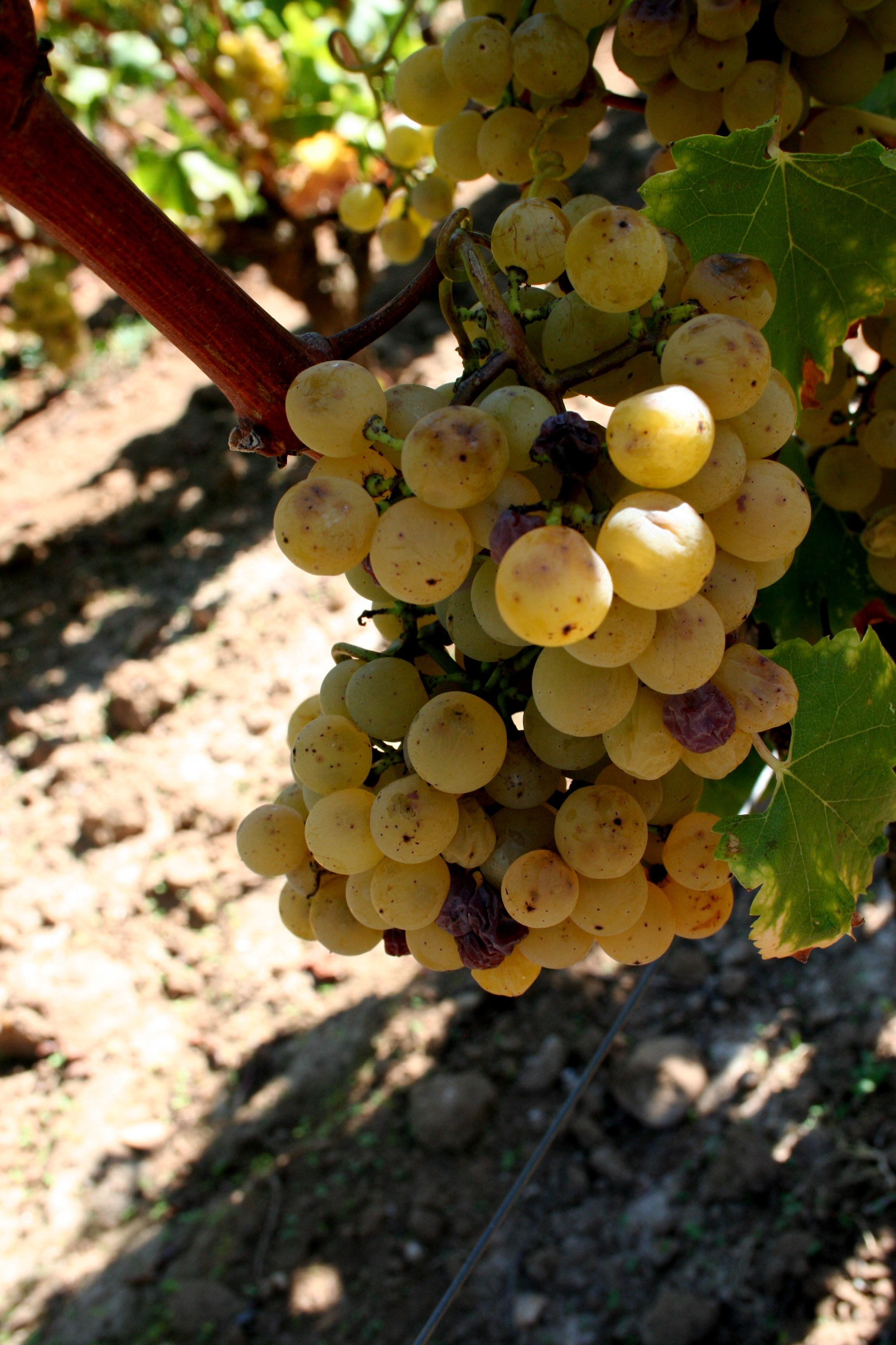 Semillon grapes with Botrytis in the French wine region of Bordeaux